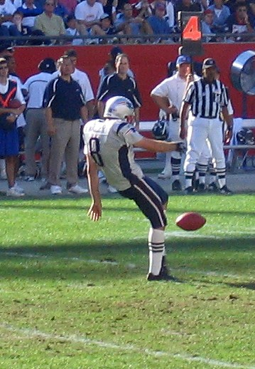 The New England Patriots punt against the San Diego Chargers.